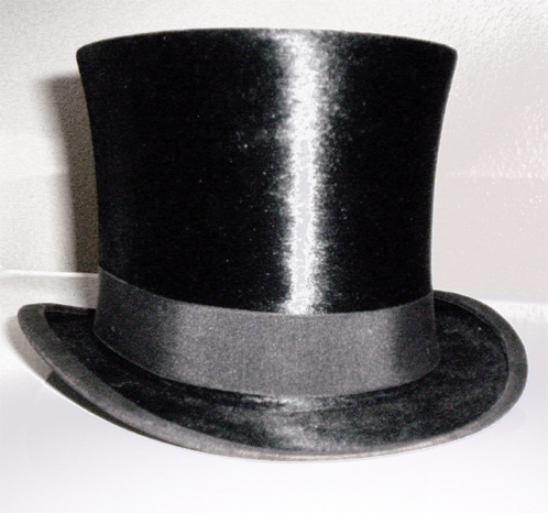 Top hat, by Chapeau Lavalle